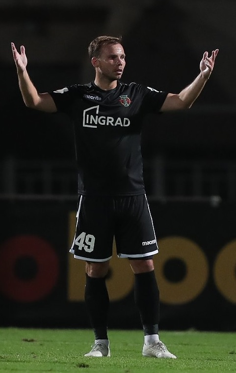 Roman Shishkin with FC Torpedo Moscow in a game against FC Avangard Kursk.